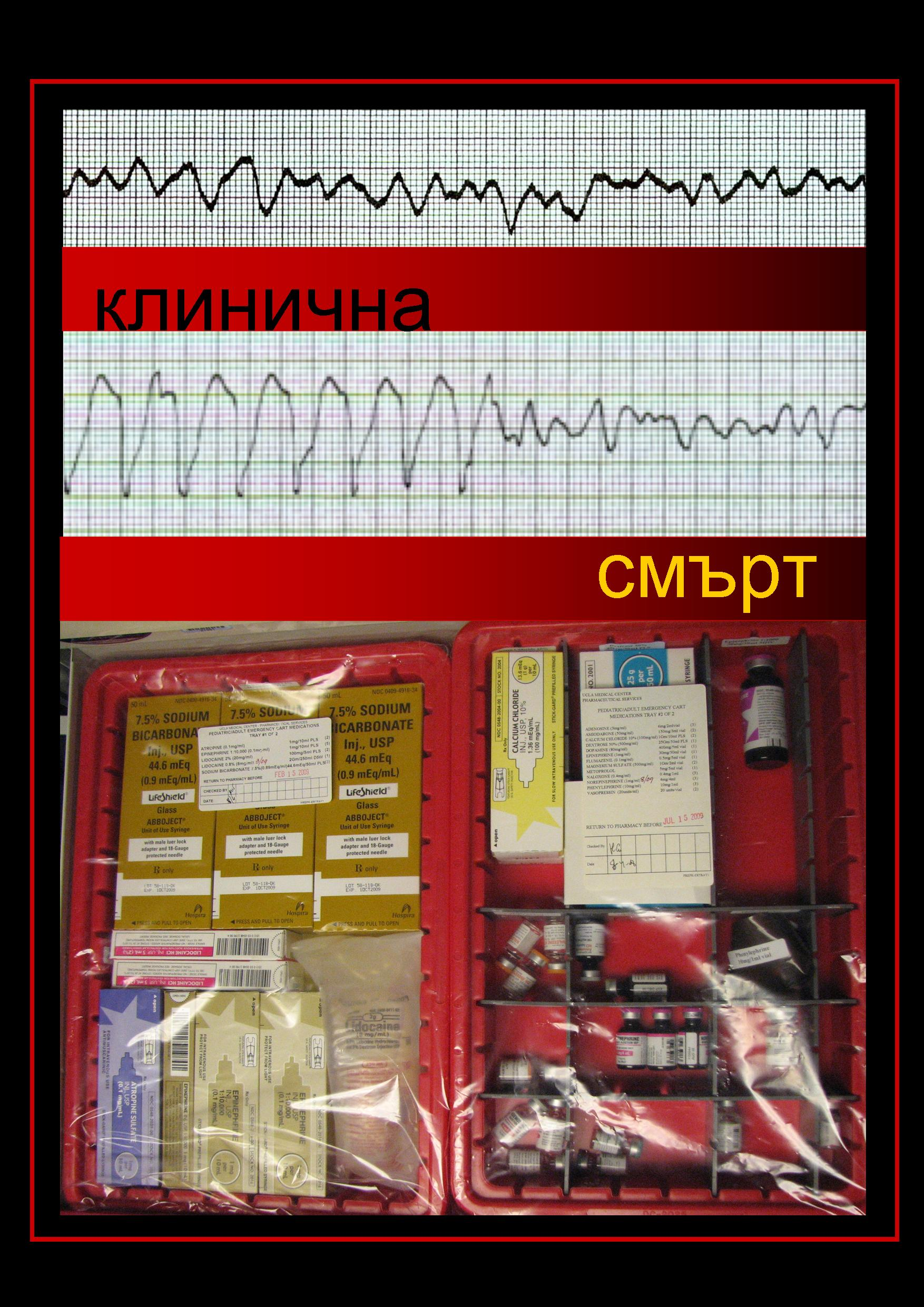 clinical death sign